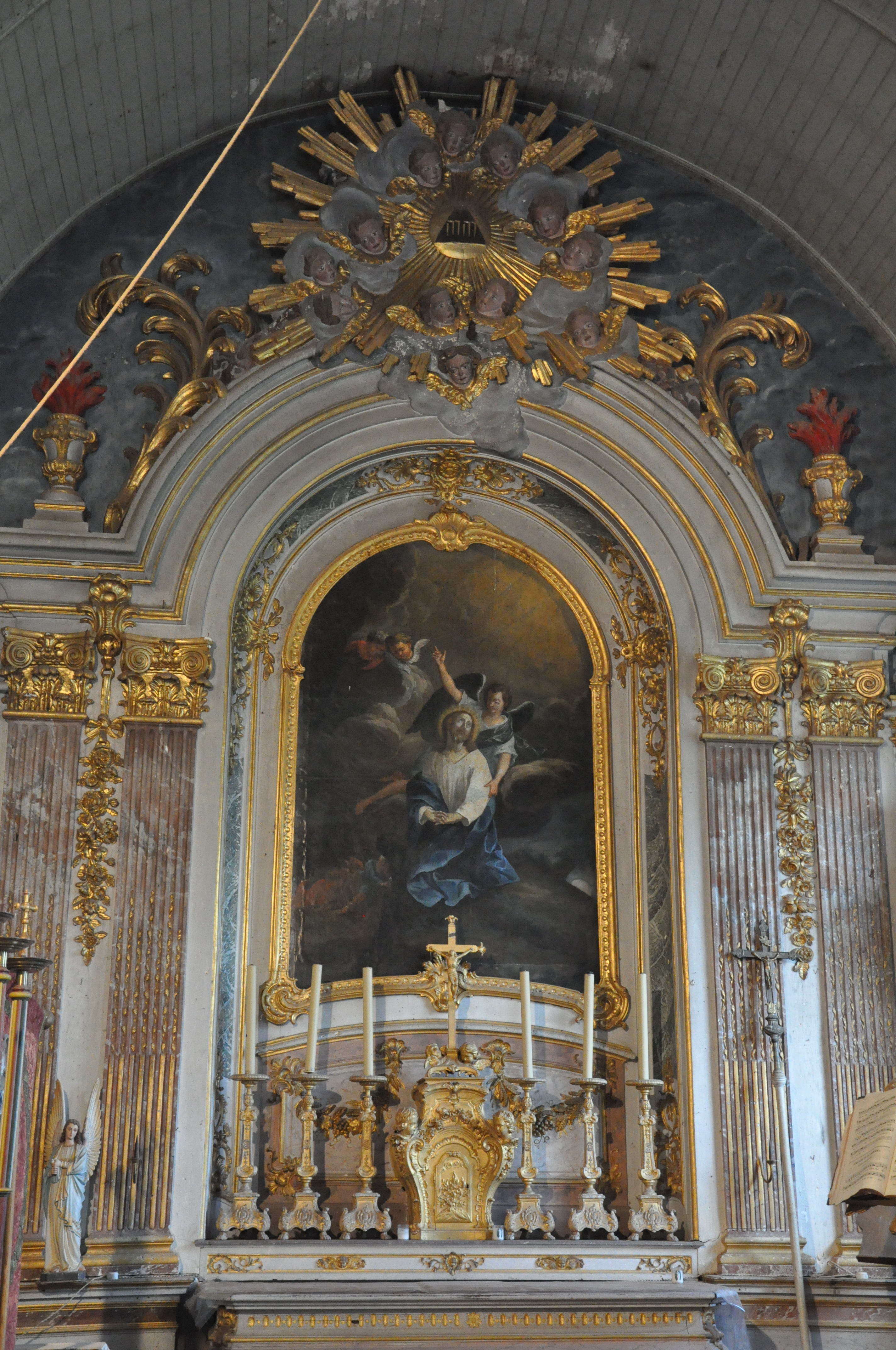 Baroque choir in churche of La Roque-Baignard (France, Normandy)